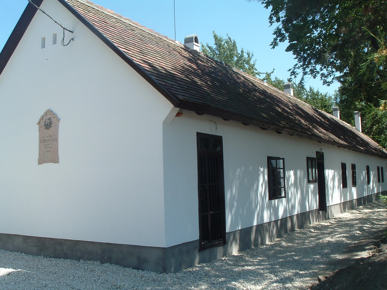 Gárdonyi Géza's house of birth in Agárd